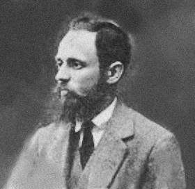 The notable portuguese anarchist Neno Vasco died in 1920.